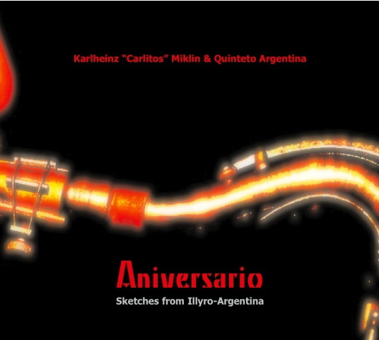 Cover of CD "Anniversario" of Karlheinz Miklin